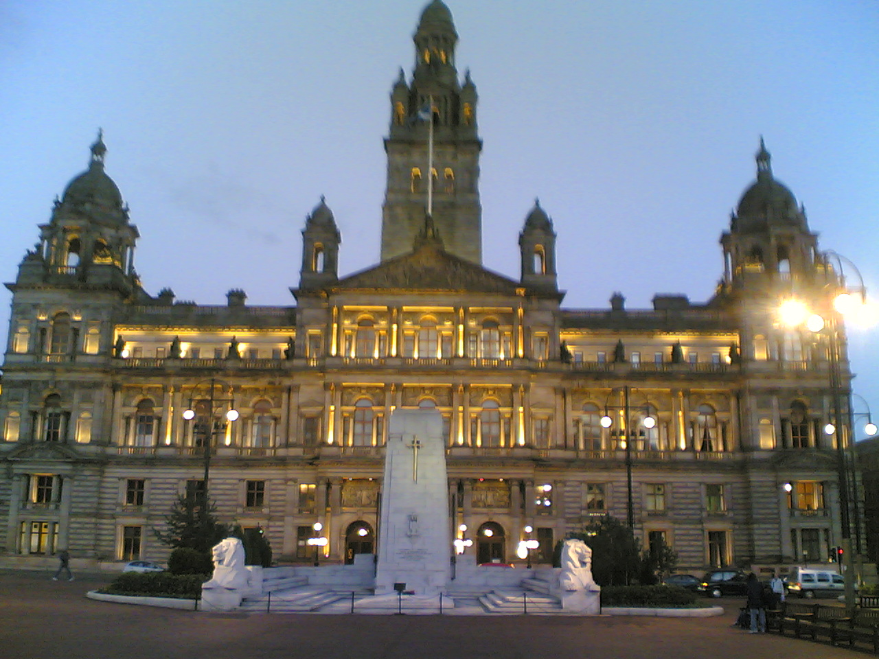 Glasgow City Chambers - picture taken by User:Erath on October 20, en:2005 and released to public domain.